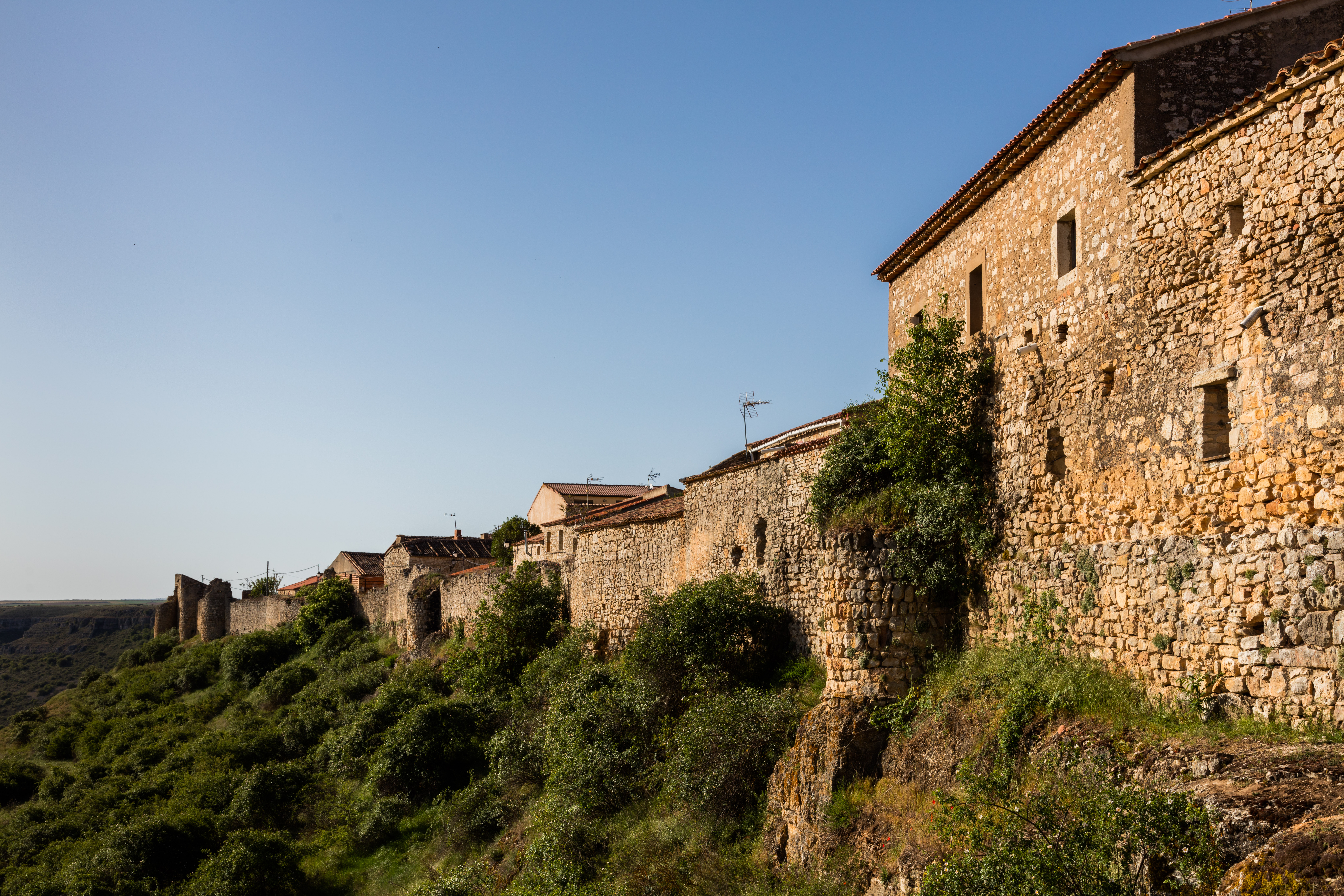 Castle, Rello, Soria, Spain